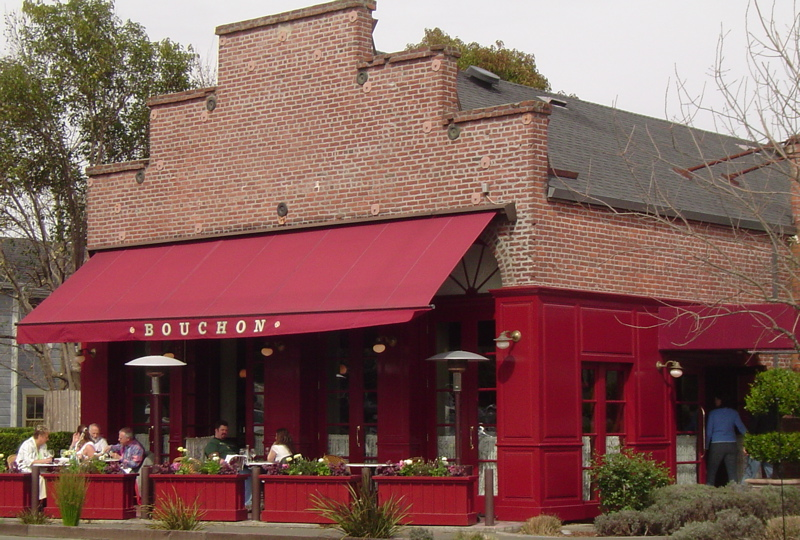 Bouchon restaurant in Yountville, California, owned by Thomas Keller